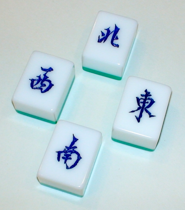 Mah Jong Pieces: North West South East 粵語: 蔴雀東南西北